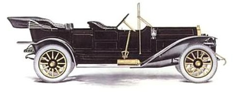 Image clipped from a 1911 Luverne Automobile advertisement